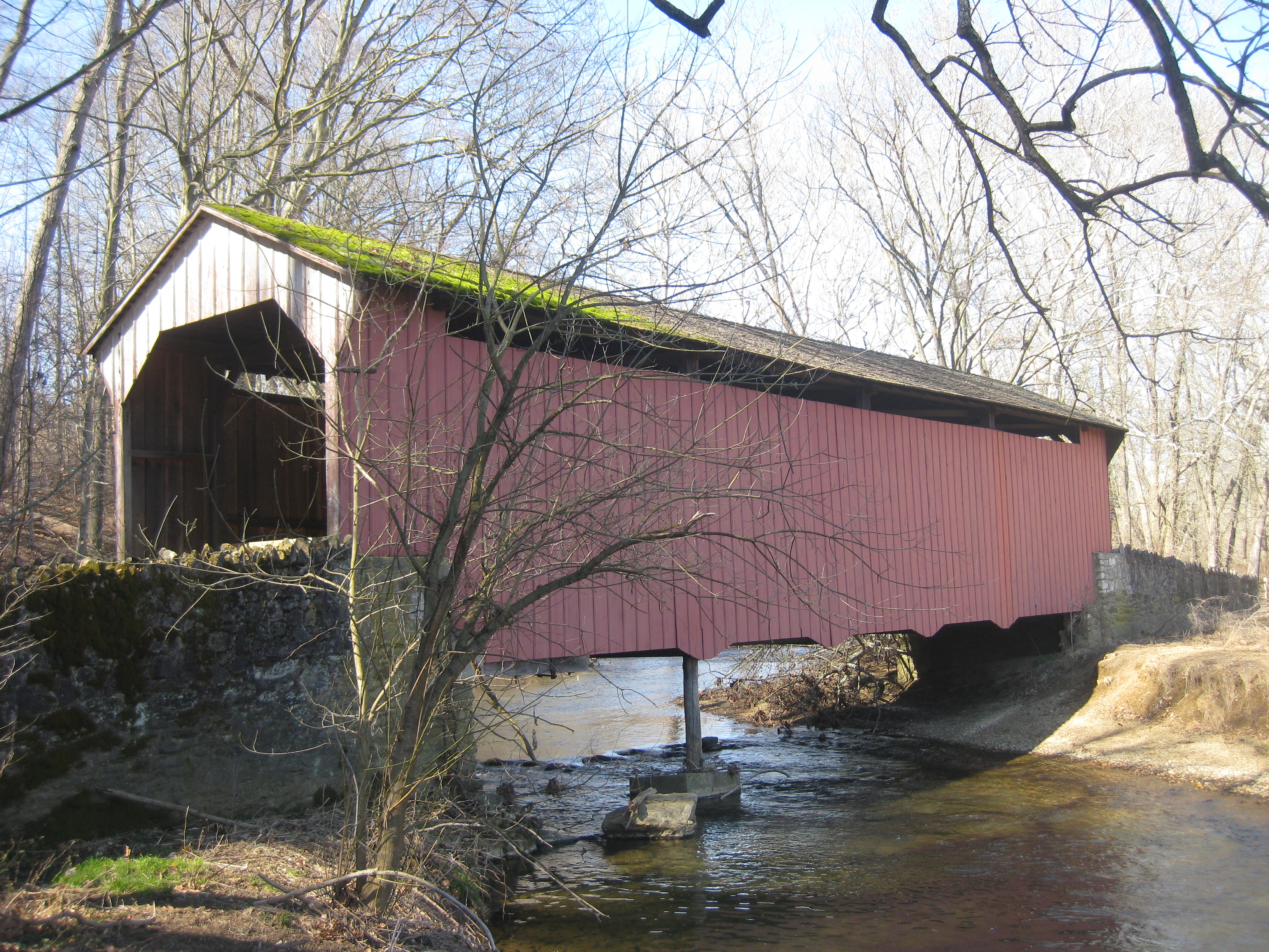 National Register of Historic Places Speakman No. 2, Mary Ann Pyle Bridge ** (added 1980 - - #80003465) S of Coatesville on T 371, East Fallowfield Township , Modena Historic Significance: Architecture/Engineering, Event Architect, builder, or engineer: Wood,Ferdinand, Wood,Meanander Architectural Style: Other Area of Significance: Transportation, Engineering Period of Significance: 1875-1899